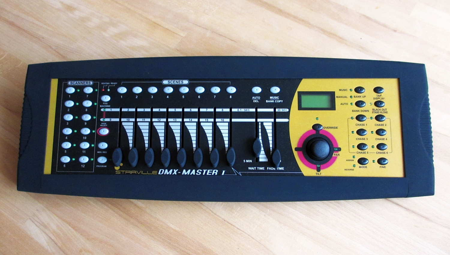 DMX-Controller, Modell "DMX Master I" von "Stairville" (Thomann)